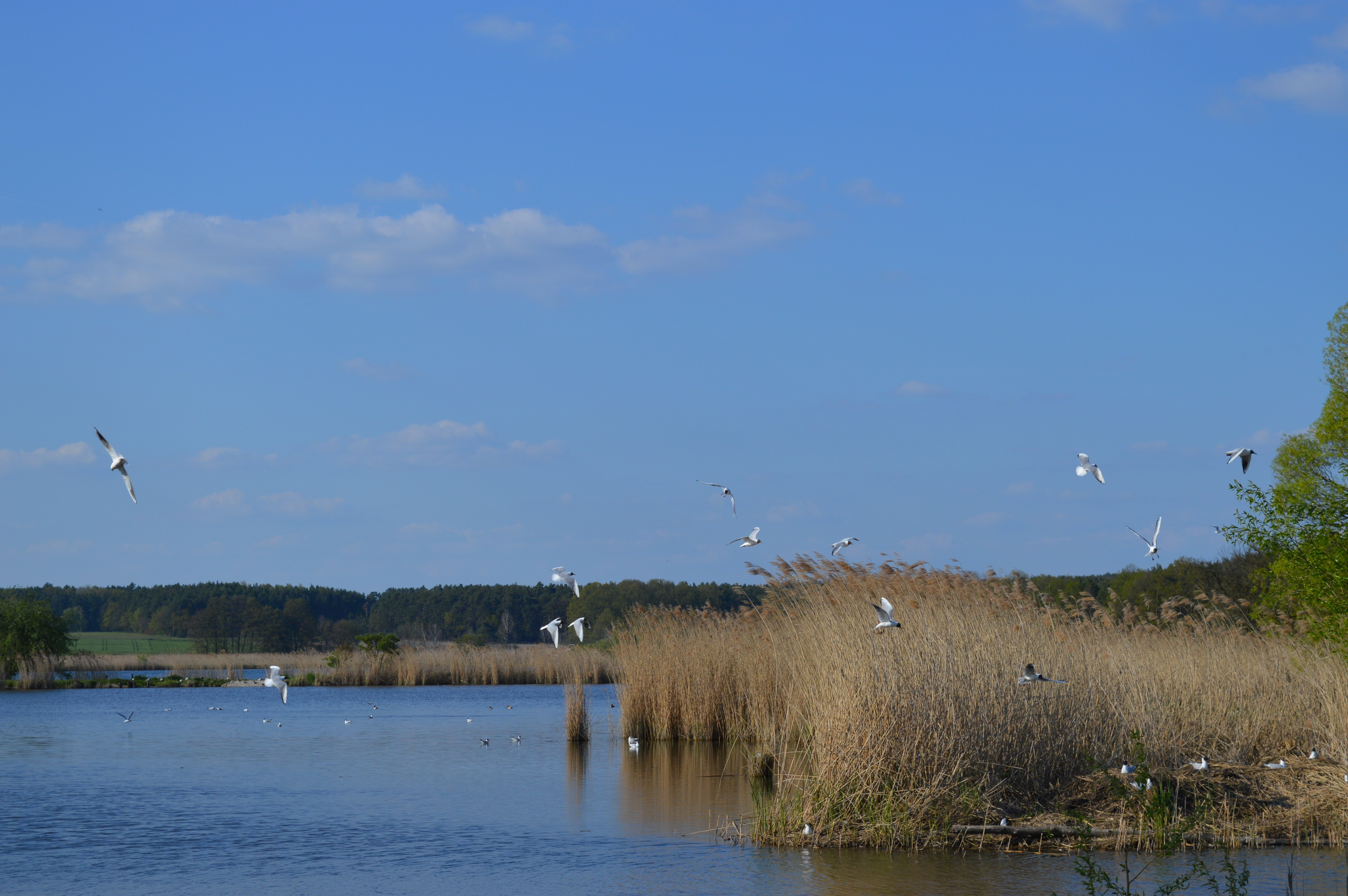 (NSG:BY-NSG-00167.01)_Vogelfreistätte Weihergebiet bei Mohrhof This picture shows a typical pond of the nature reserve between Morhof and Poppenwind (Bavaria, exactly Frankonia) with many gulls and their hatchery which can be seen there